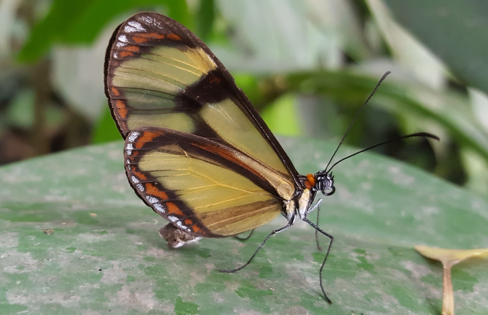 Epityches eupompe (Q13567421) observed in Guarapiranga, Brazil.